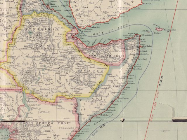 Part of a historic map of Africa, showing especially the Horn of Africa region in the middle. Made by Sir Edward Hertslet (1824-1902), published in London 1909.